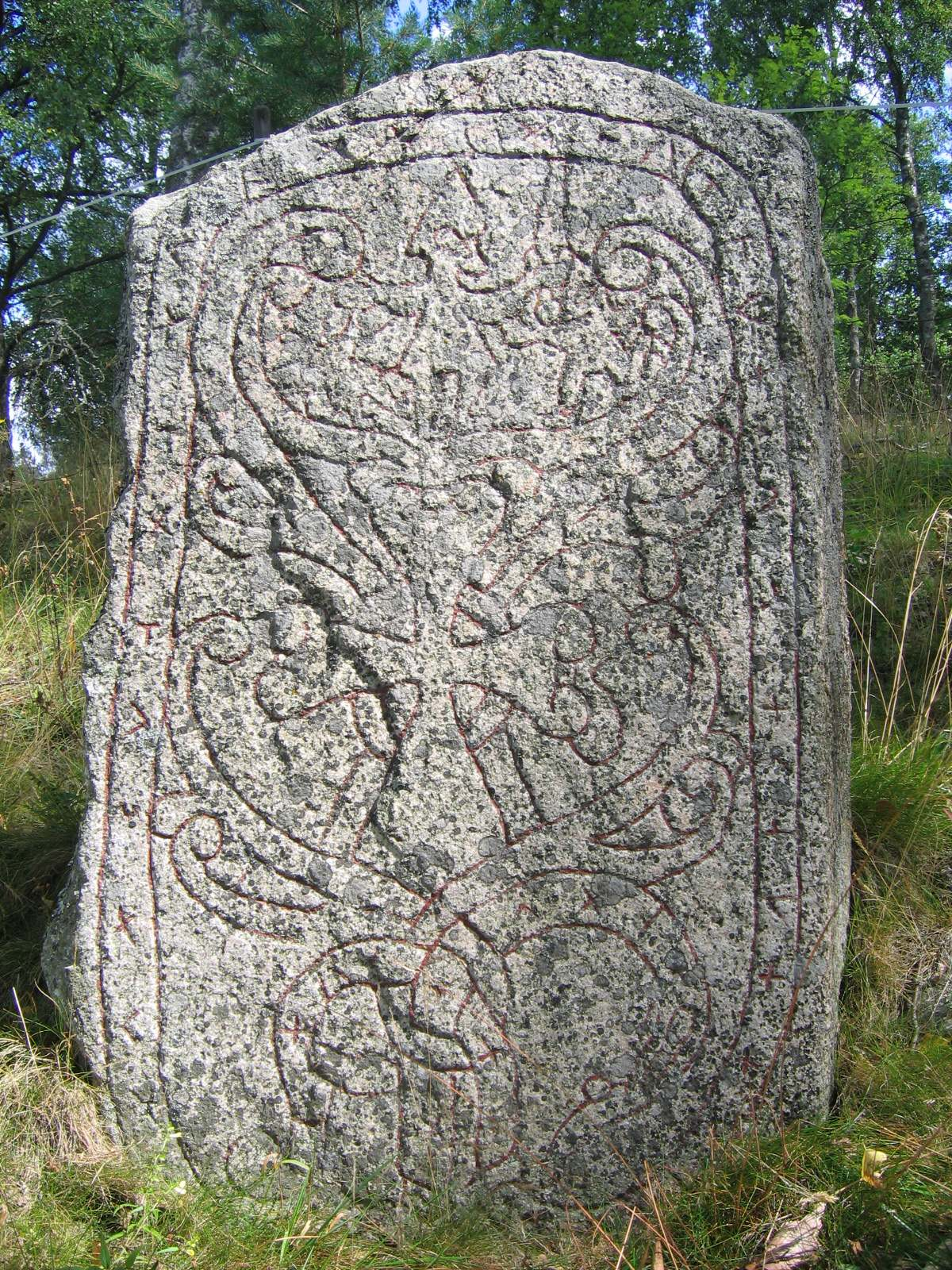 Runestone without runes (U1175) in Stora Ramsjö, Vittinge parish, Heby municipality, Uppsala county, Uppland, Sweden.